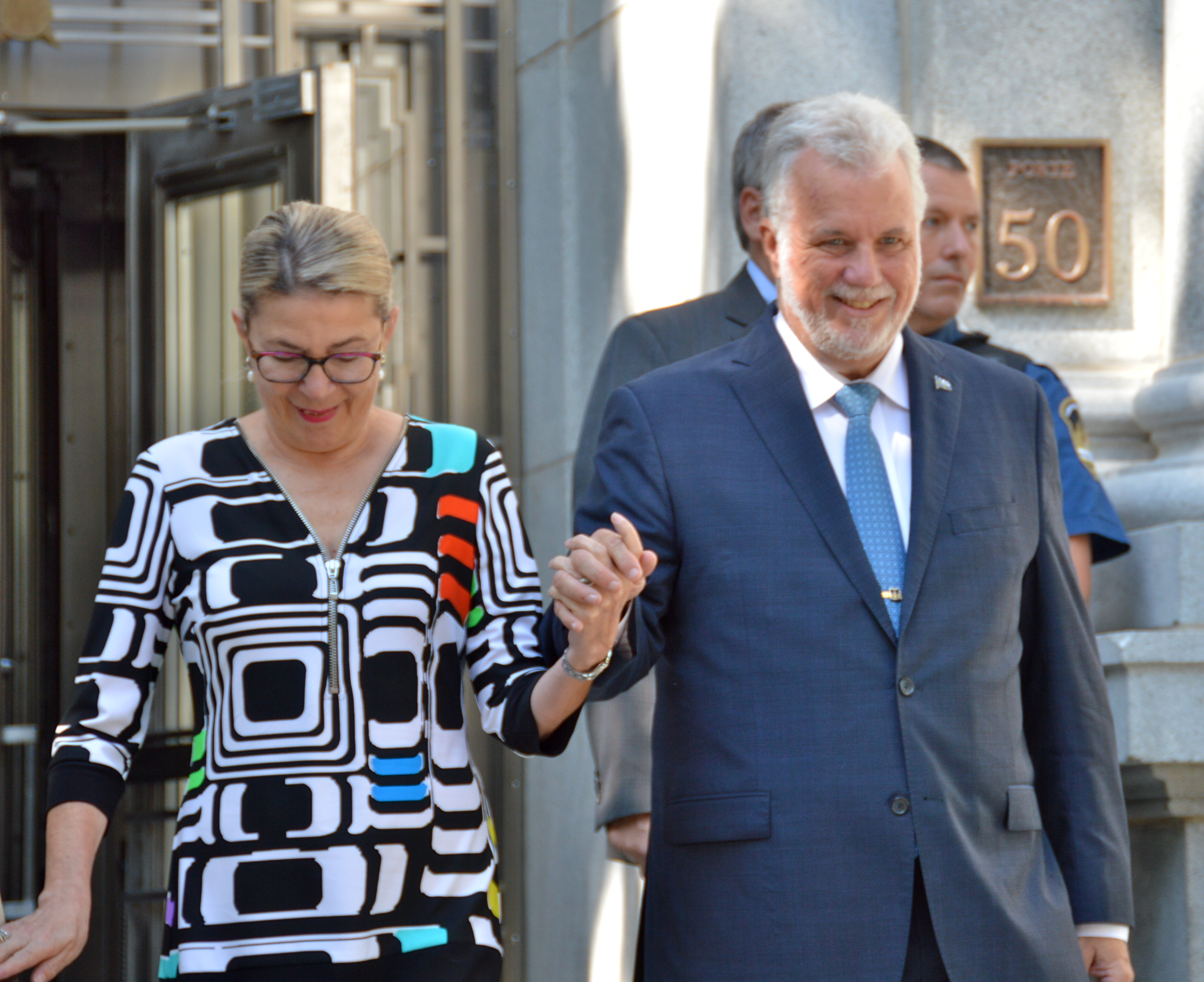 Suzanne Pilote and Philippe Couillard, Prime minister of Quebec, after their meeting with the Lieutenant Governor for the signature of the order in council relative to the 2018 general election.